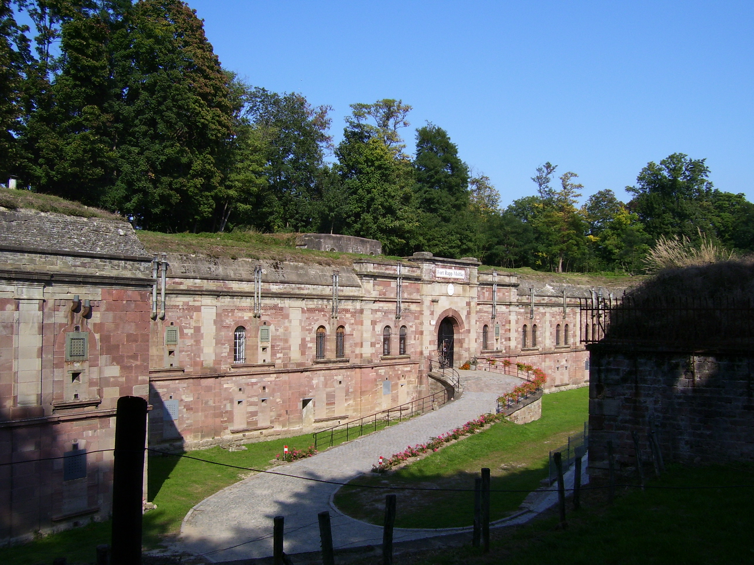 Fort Rapp (also known as Fort Moltke)